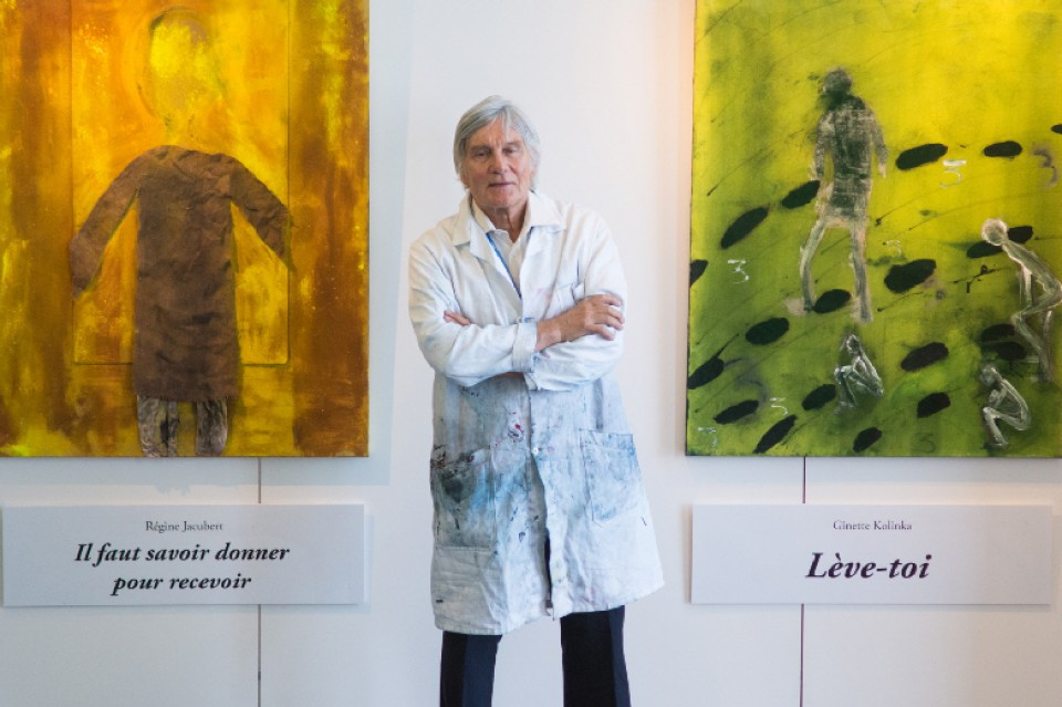 Alain Husson-Dumoutier in front of two of his paintings during his exhibition "Survivors of the Holocaust" in UNO Geneva